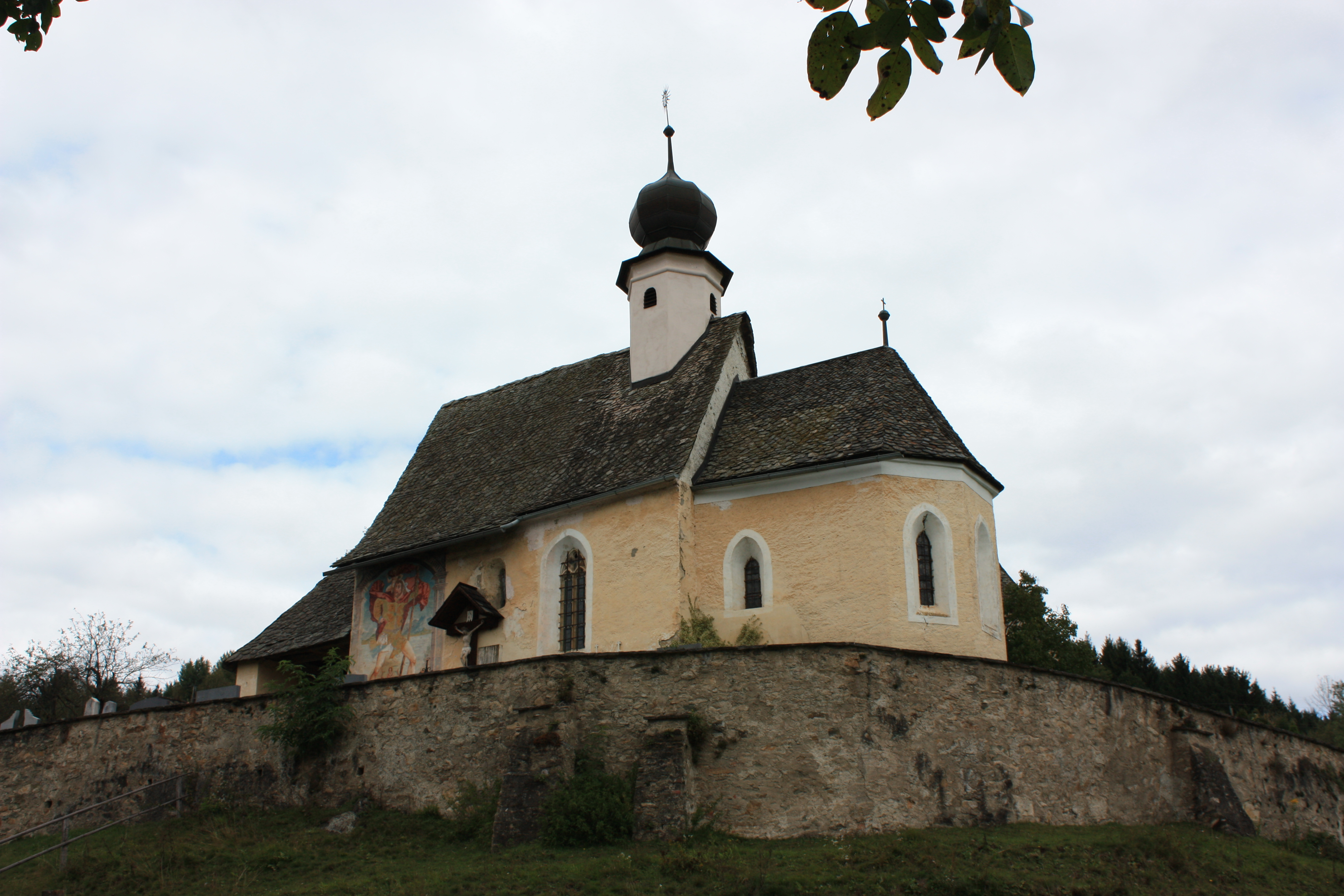 Subsidiary church Locality:Treffling Community:Mölbling